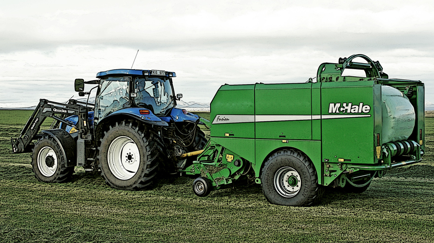 McHale integrated baler wrapper Fusion pulled by a New Holland tractor somewhere in Iceland